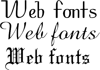 Three different fonts that aren't normally seen on the web. From top to bottom: Spirit, Amazone BT, Olde English. Can be used to show the typography possibilities of web fonts.